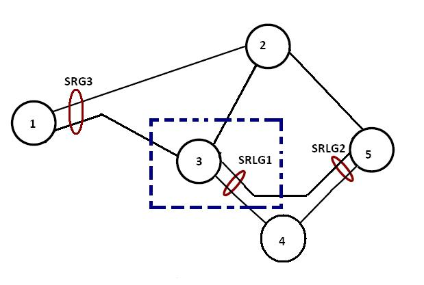 example of node order restriction